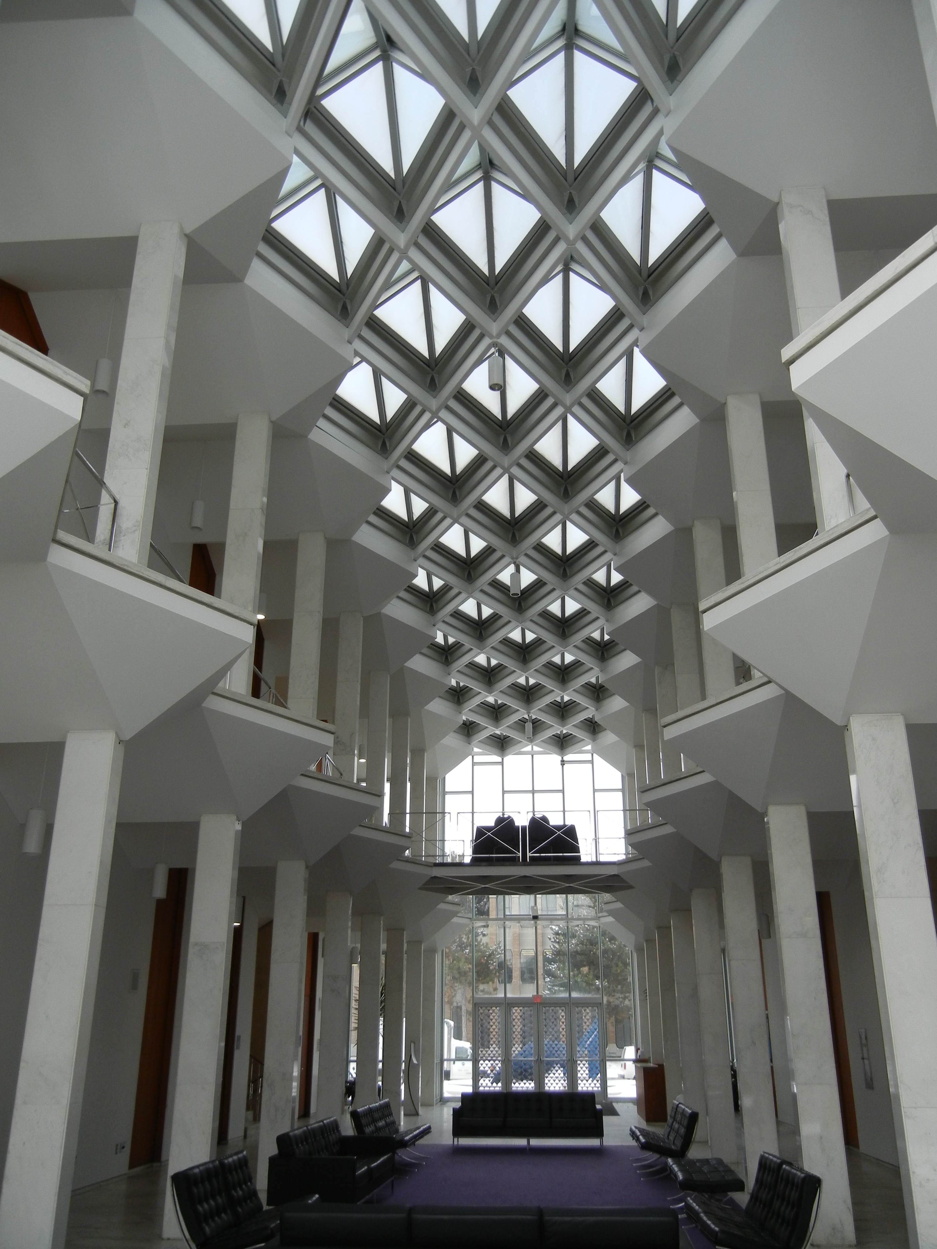 Lobby of the McGregor Conference Center, Wayne State University, Detroit, Michigan